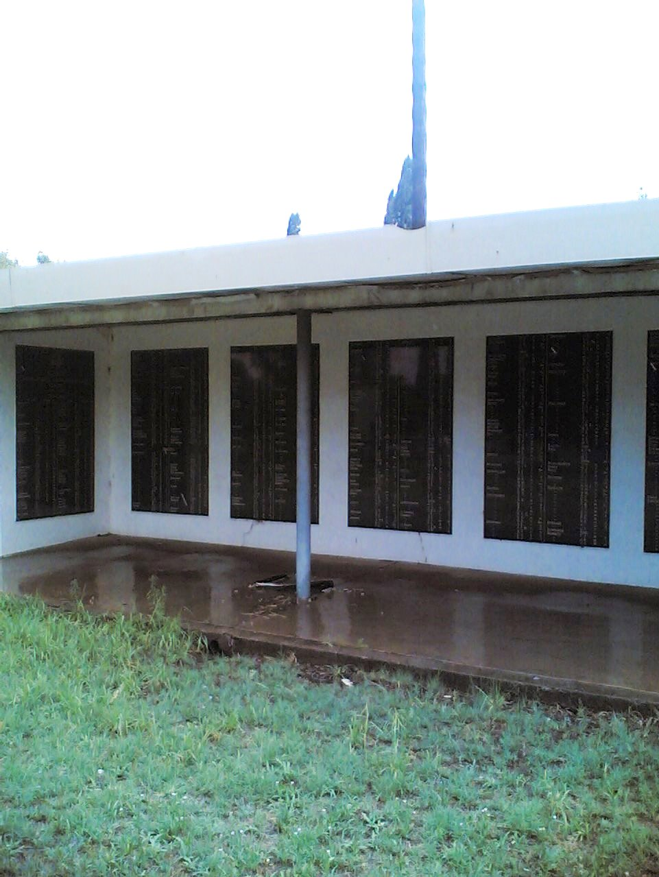 Concentration Camp Memorial at Klerksdorp. The Plaques list the names of those who died at this camp.